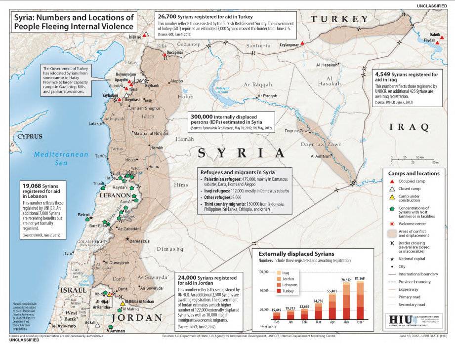 US State Department map of the numbers and locations of people fleeing the violence in Syria during the Syrian uprising. 15 June 2012.